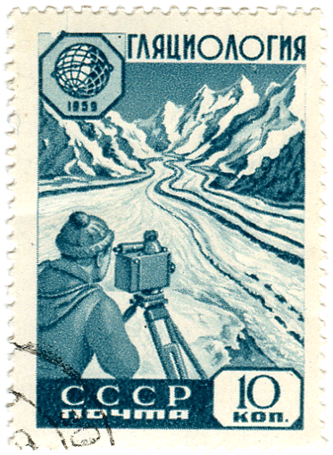 USSR stamp on glaciology from the 1959 yesar issue 'International geophysical year'. Michel #2259/1